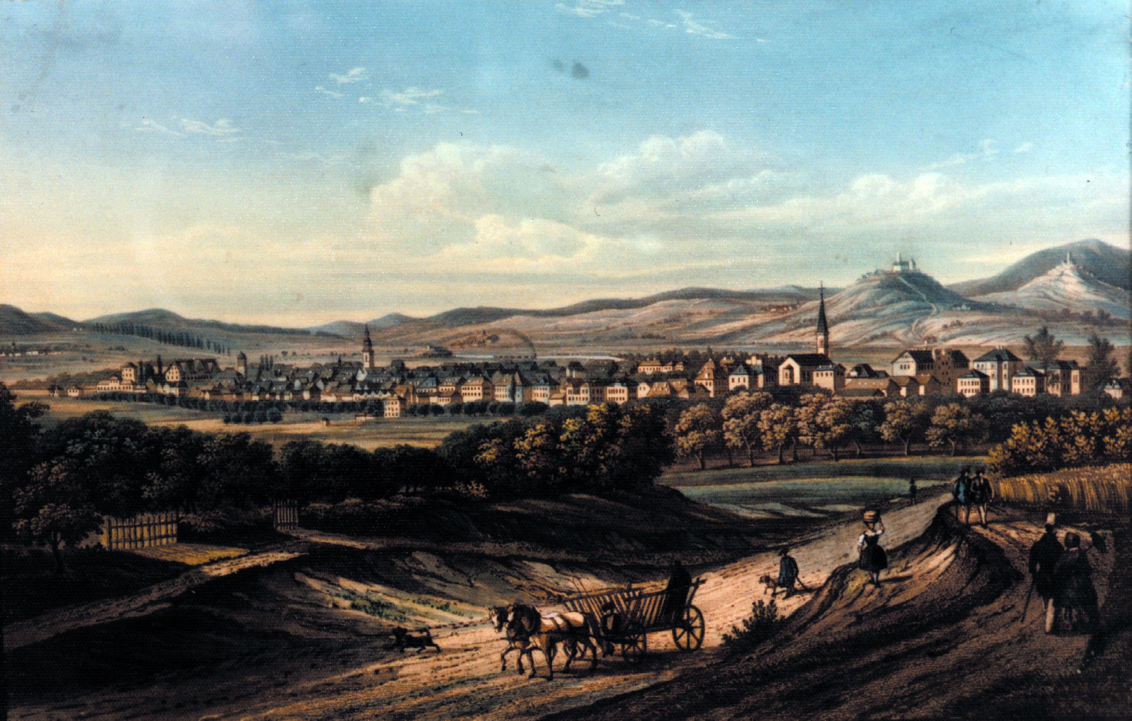 View of Gießen to the beginning of the 19th cenury.